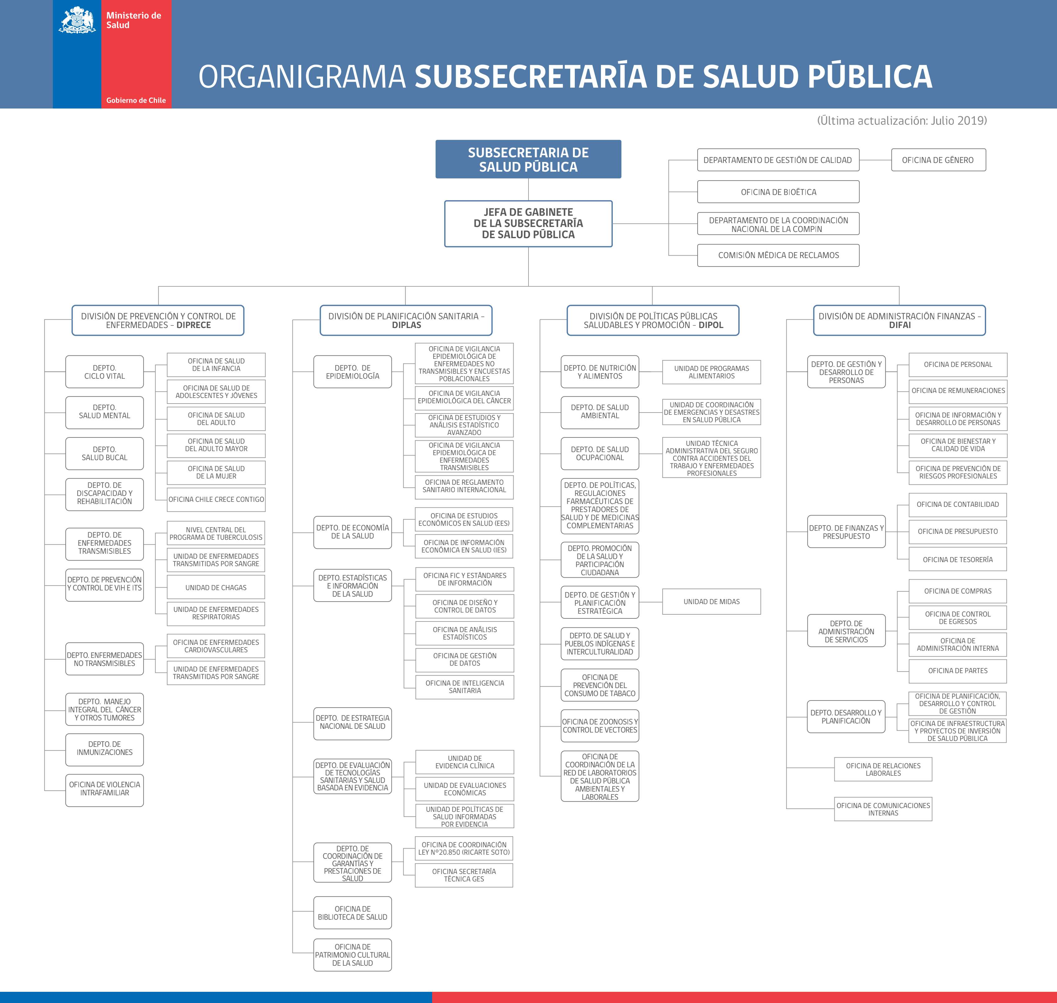 Official organization chart of the Undersecretariat of Public Health in Minsal around July 2019